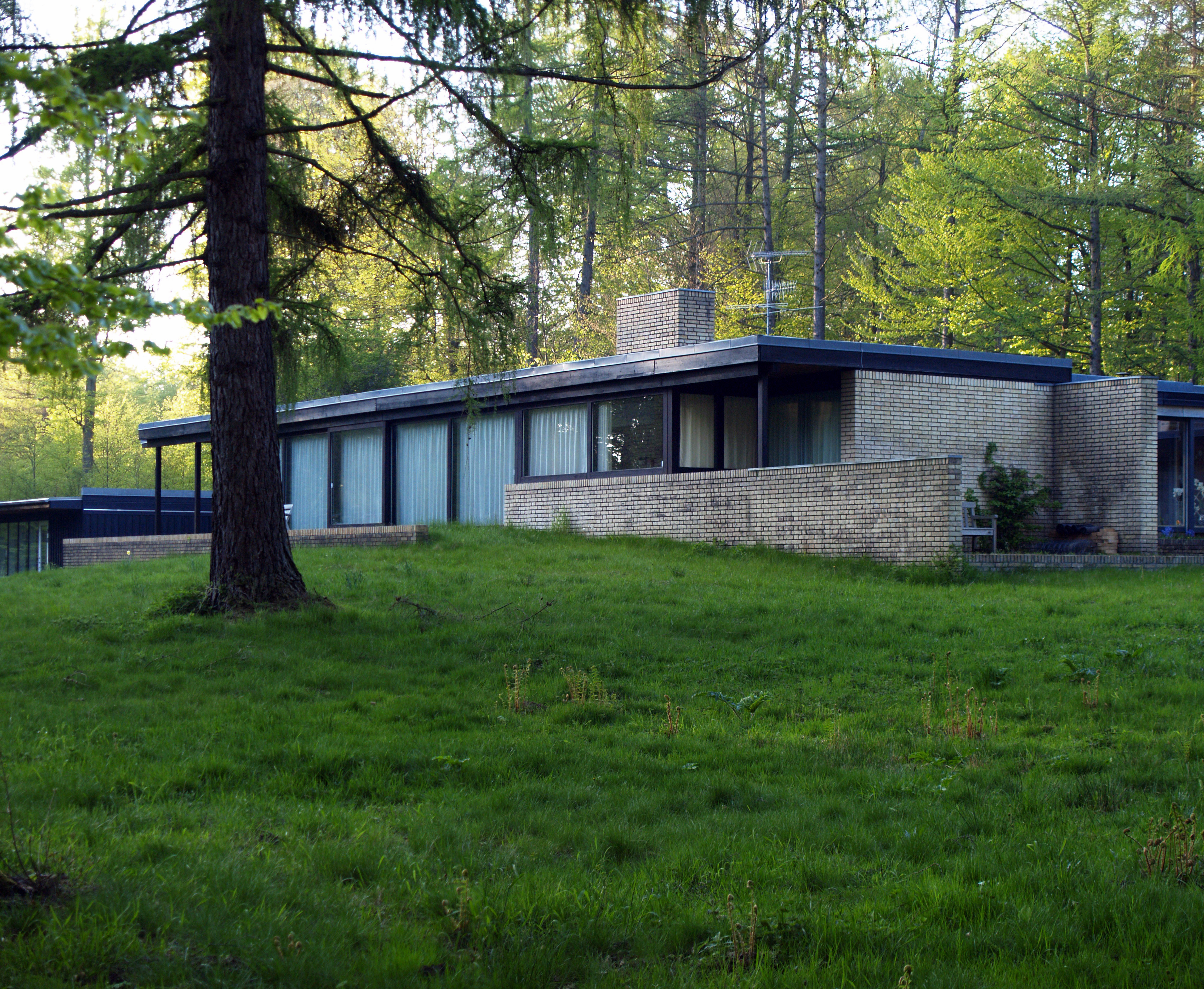 architect's own house, hellebæk, 1950-1952. architect: jørn utzon. The house was listed in 2005.